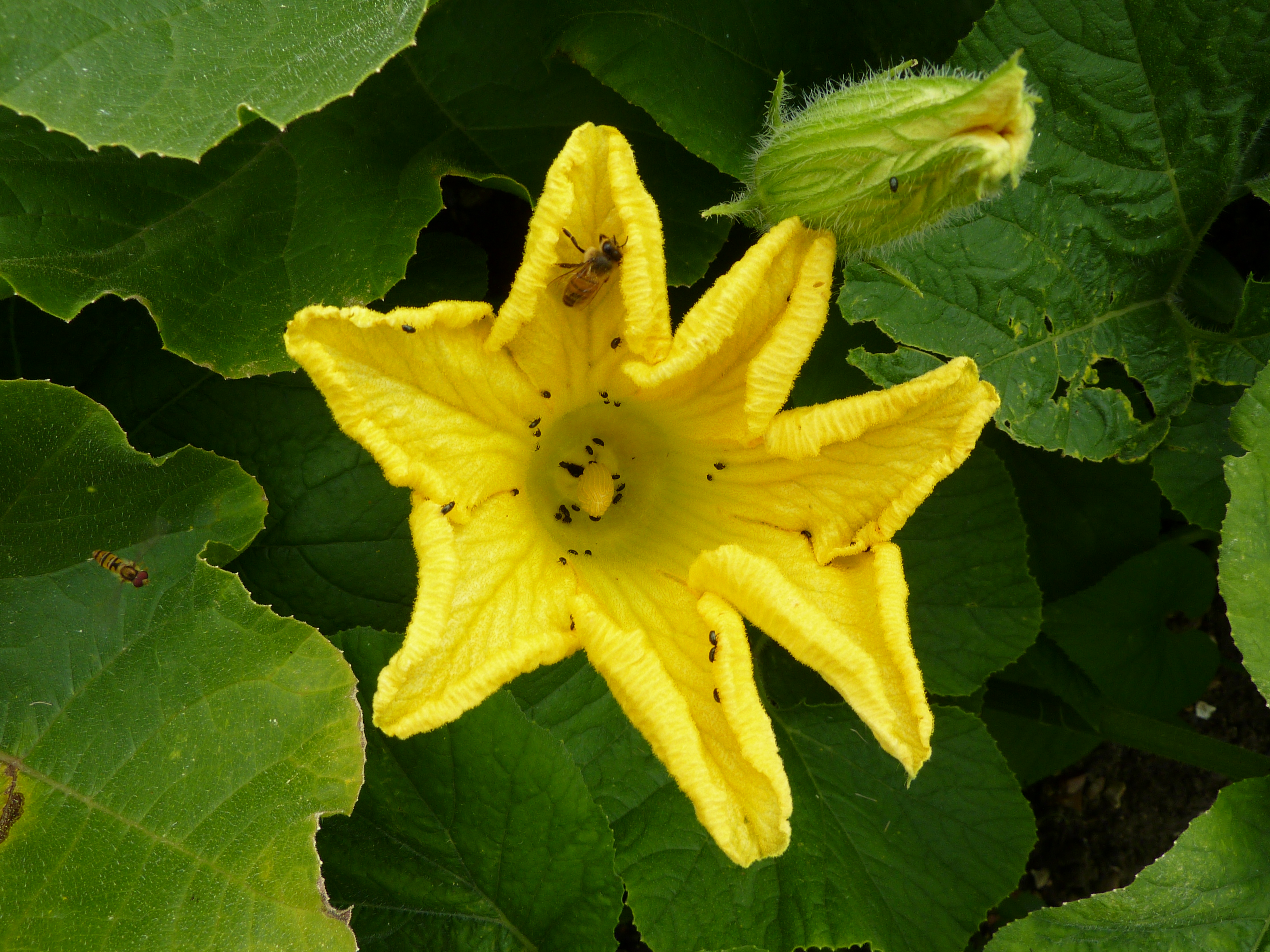 Thladiantha villosula, Cambridge University Botanic Garden